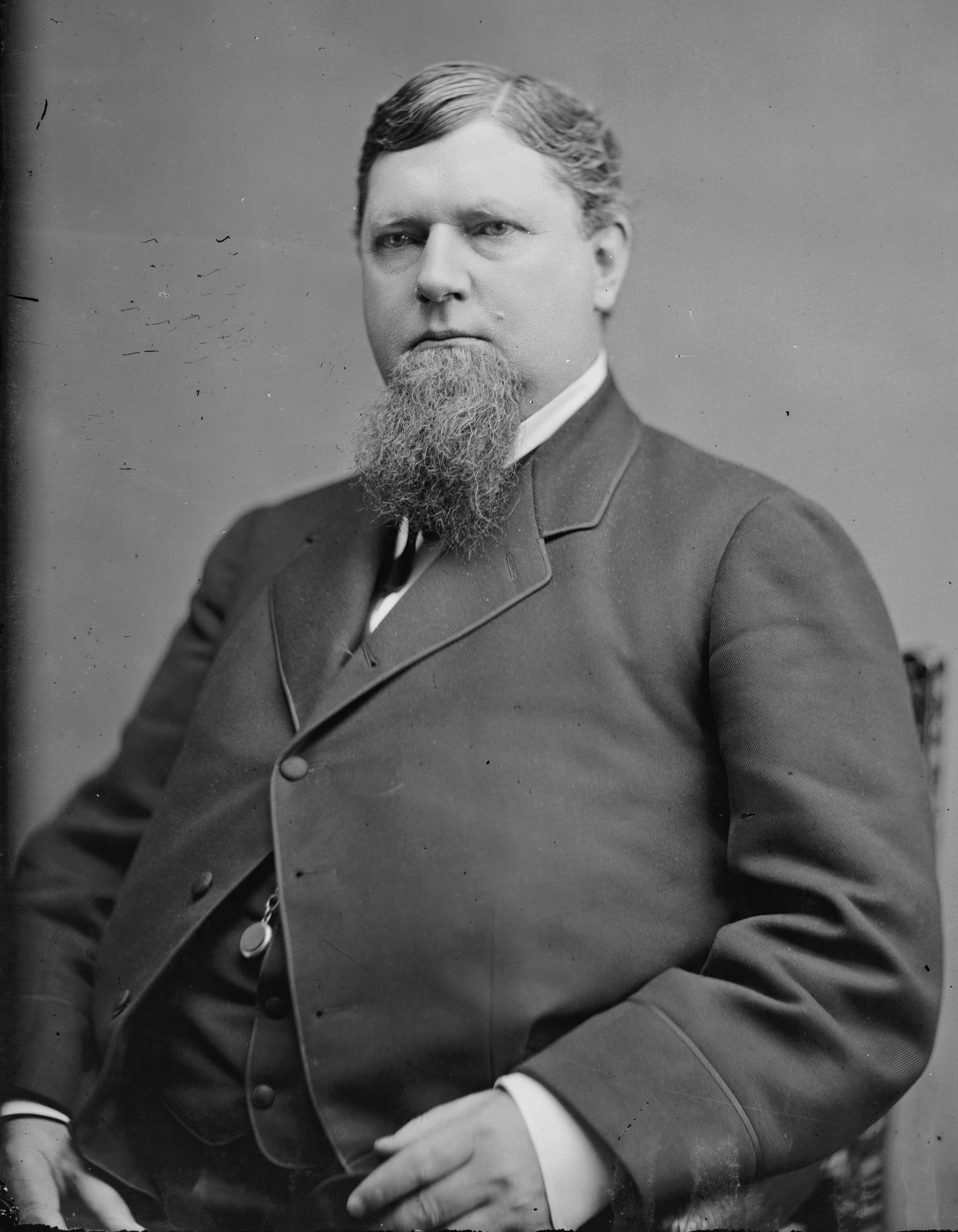 Henry M. Hoyt. Library of Congress description: "Hoyt, Hon. Henry M. Gov. of PA".